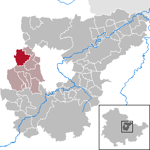 Niederzimmern in Thuringia - District Weimarer Land